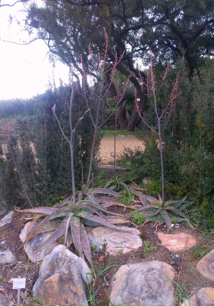 Aloe greenii - pongola 1